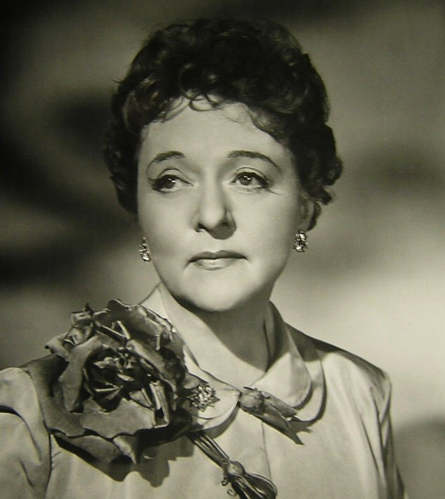 Jessie Royce Landis in My Man Godfrey - publicity still (original image cropped : see source)